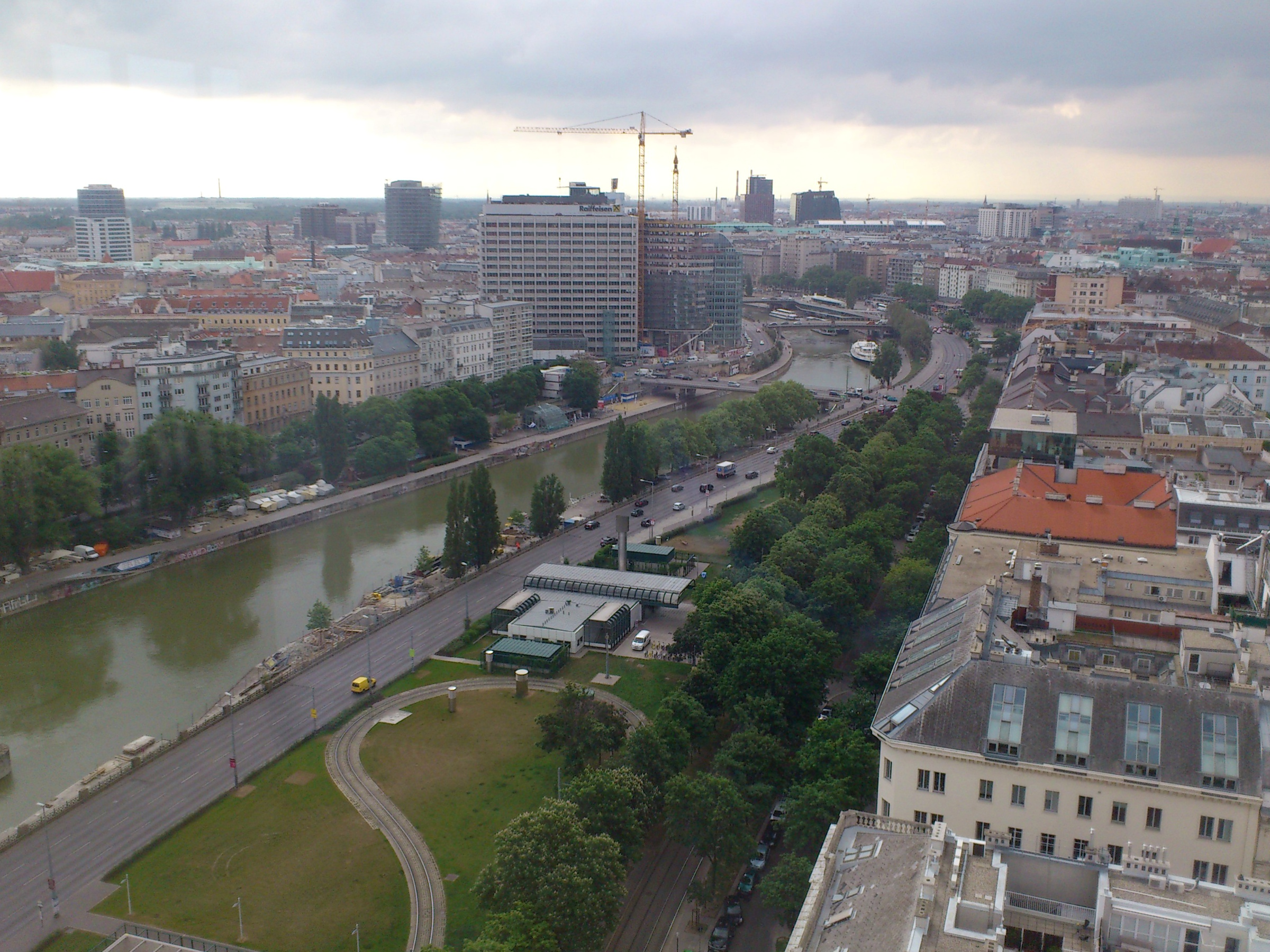 Southern view from the Ringturm long the Donaukanal.